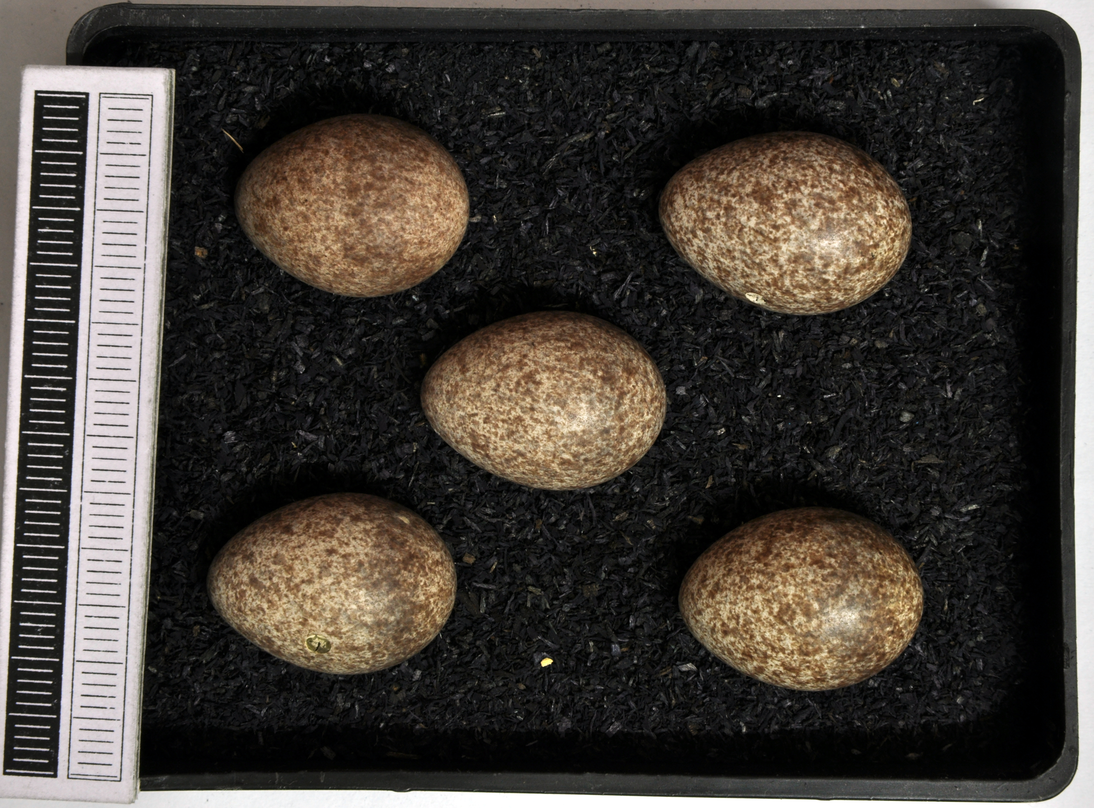 Meadow pipit ', egg, Coll. Museum Wiesbaden, Origin: Alfta, Sweden, 04.06.1975, leg. W. Abelmann